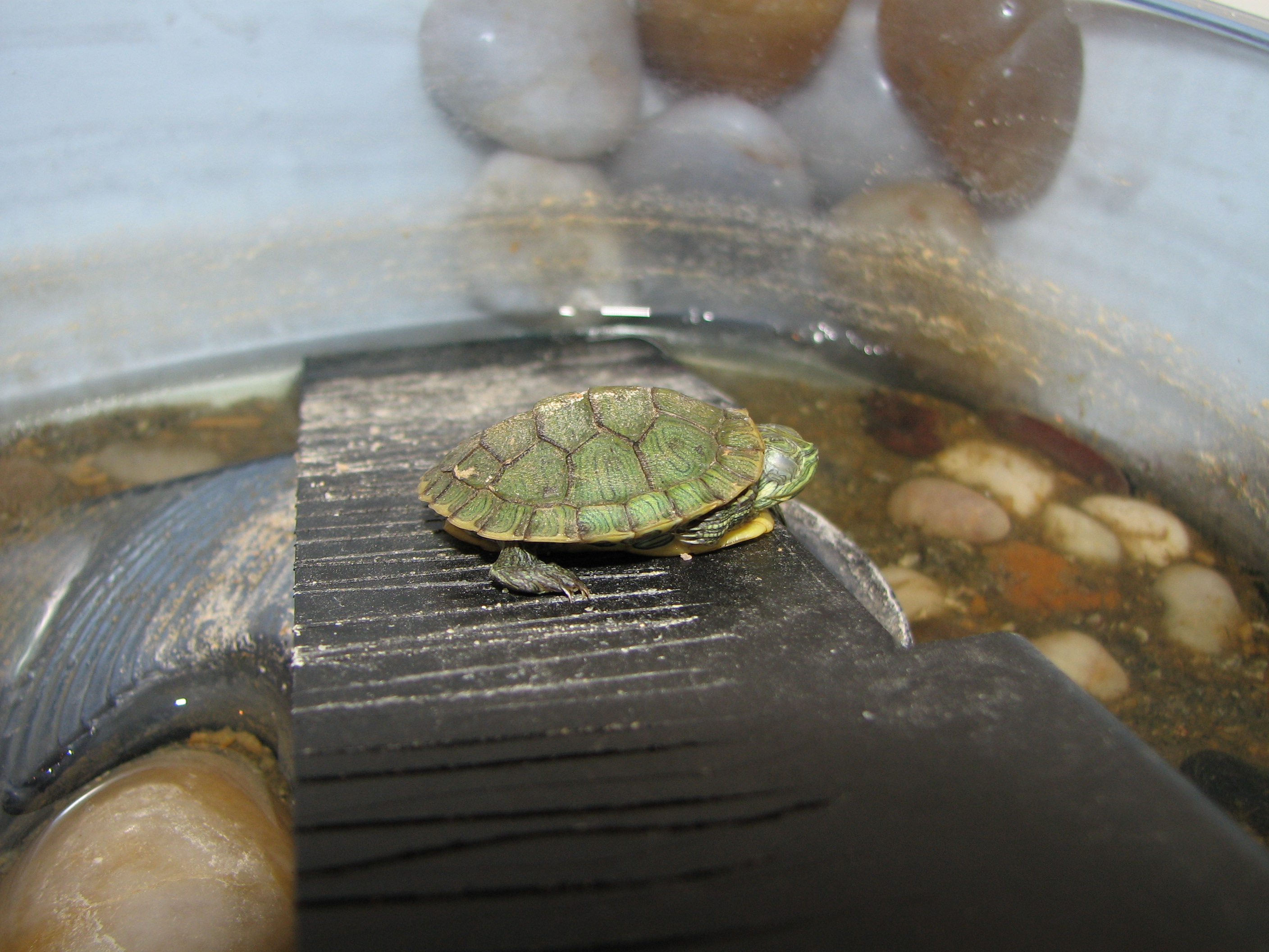 Turtles Hibernation, Sunil Abraham, Own work, Dtd: 28/7/2006 - 6:56 PM Equipment: Canon Powershot S3IS Focal Length: 6MM